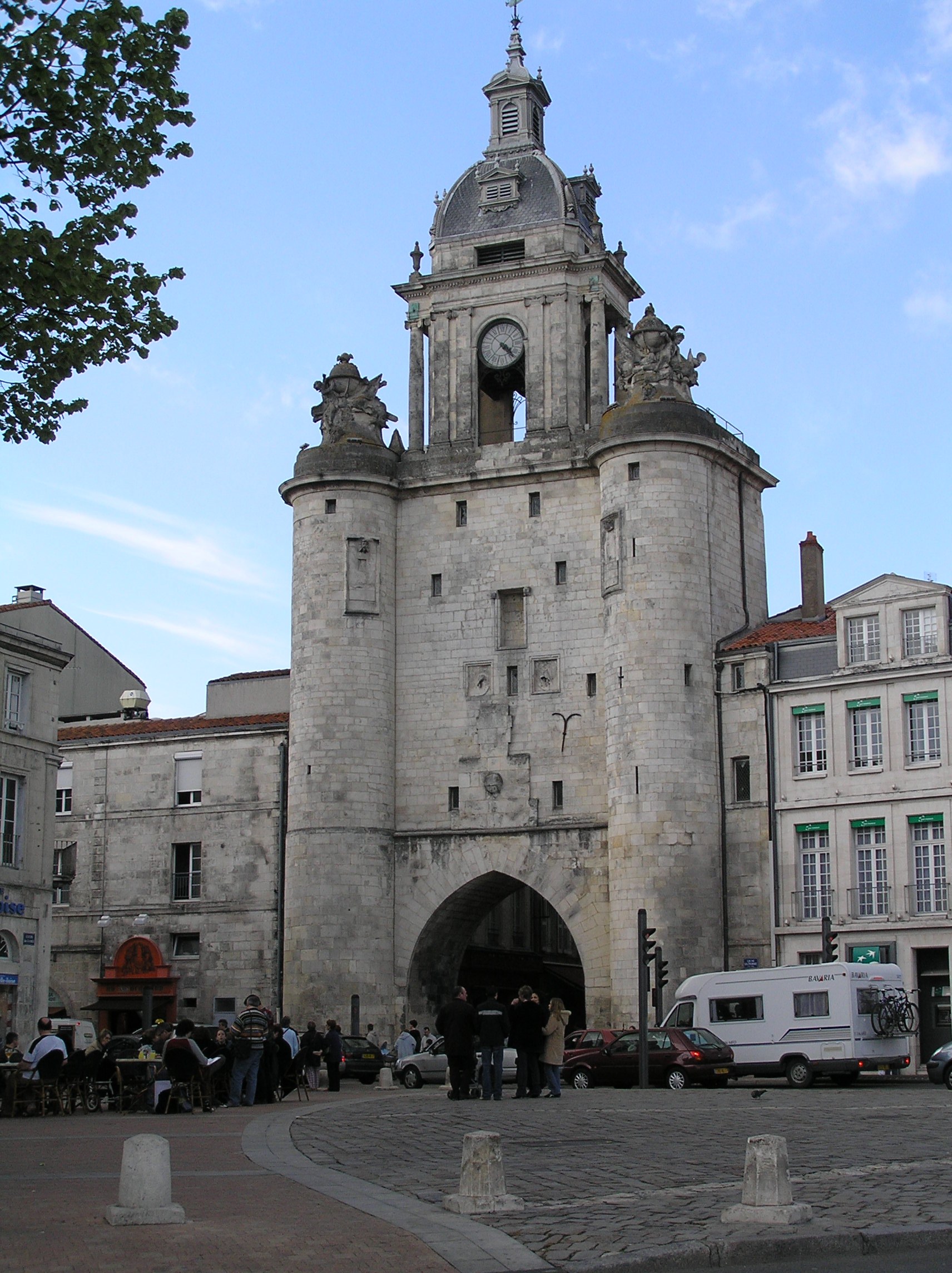 La Tour de la grosse horloge